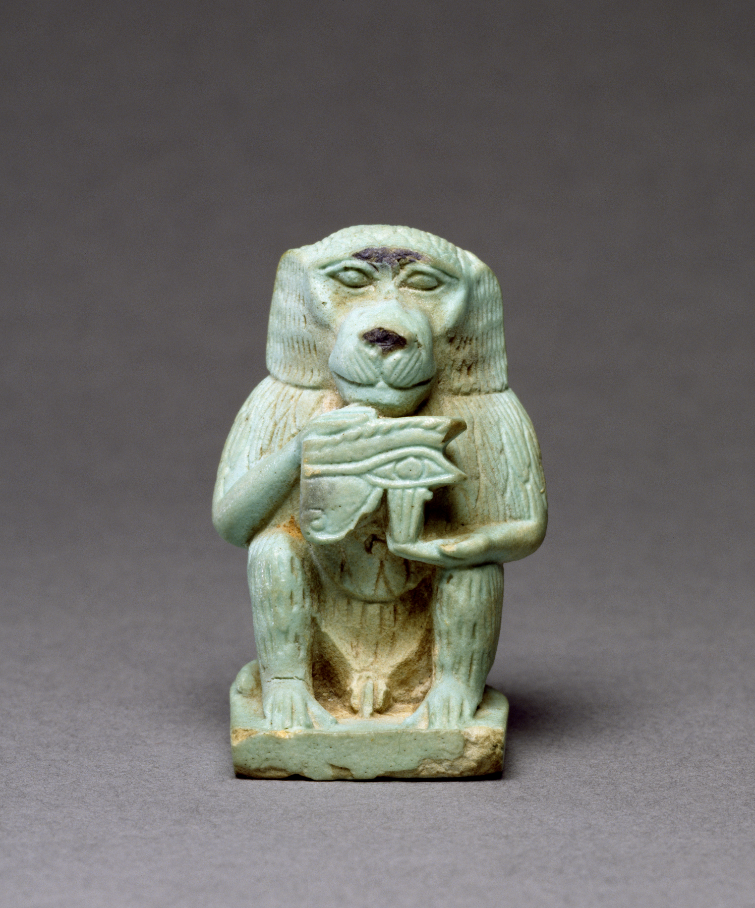 The patron of scribes and deity of wisdom, Thoth was associated with the sun and the moon, traditionally the two "eyes" of the celestial-god Horus. The baboon, identified with Thoth, here holds a sacred Wedjat-eye, the so-called Eye of Horus, which symbolizes legitimate kingship, the structured universe, and life. This carefully formed baboon holds the eye in front of his chest with his left hand below and the right above.